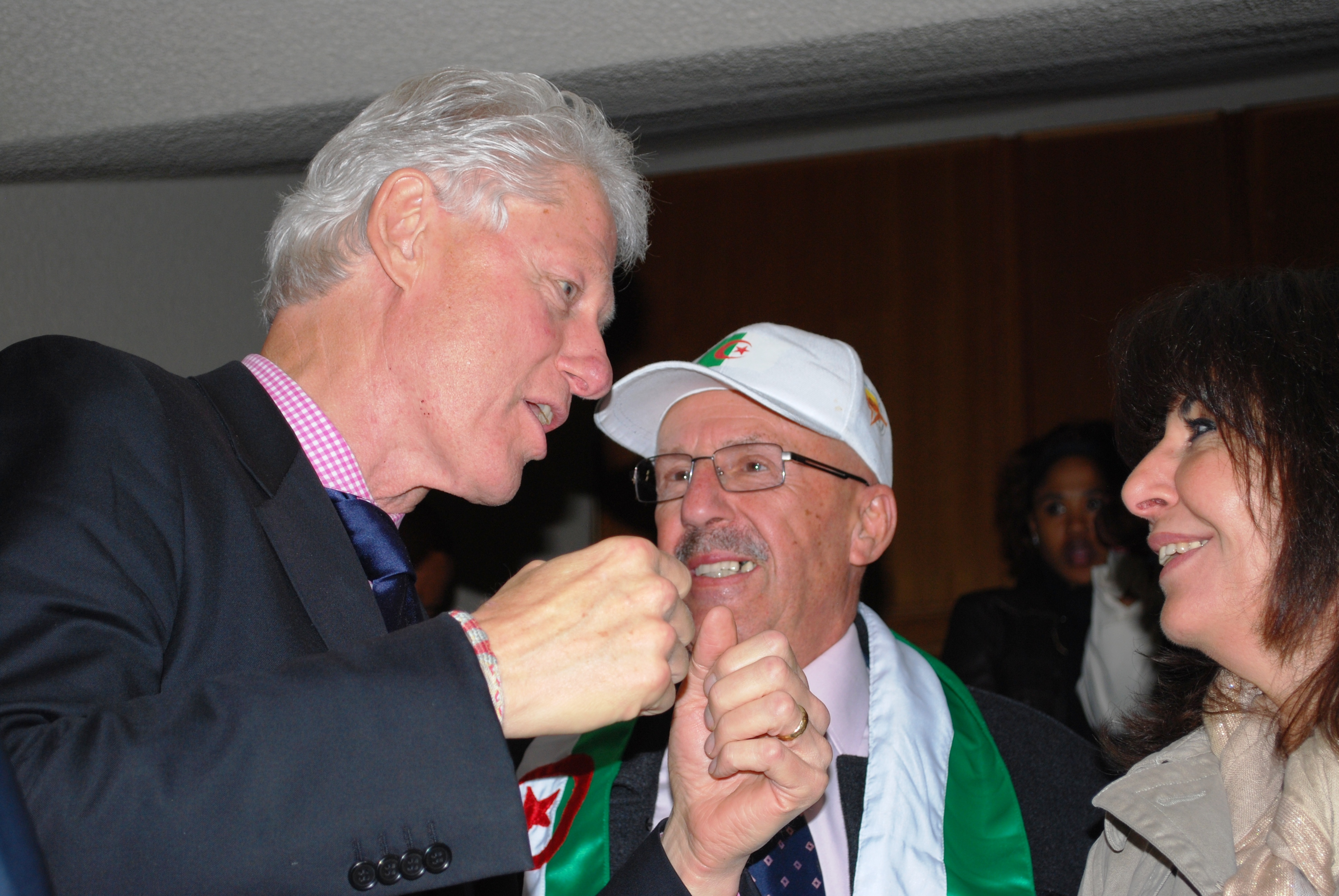 Former President Bill Clinton speaks with Algerian Ambassador to South Africa Mourad Bencheikh at the U.S. vs. Algeria World Cup soccer match at Loftus Versfeld Stadium in Pretoria, South Africa, on June 23, 2010. [State Department photo/ Public Domain]